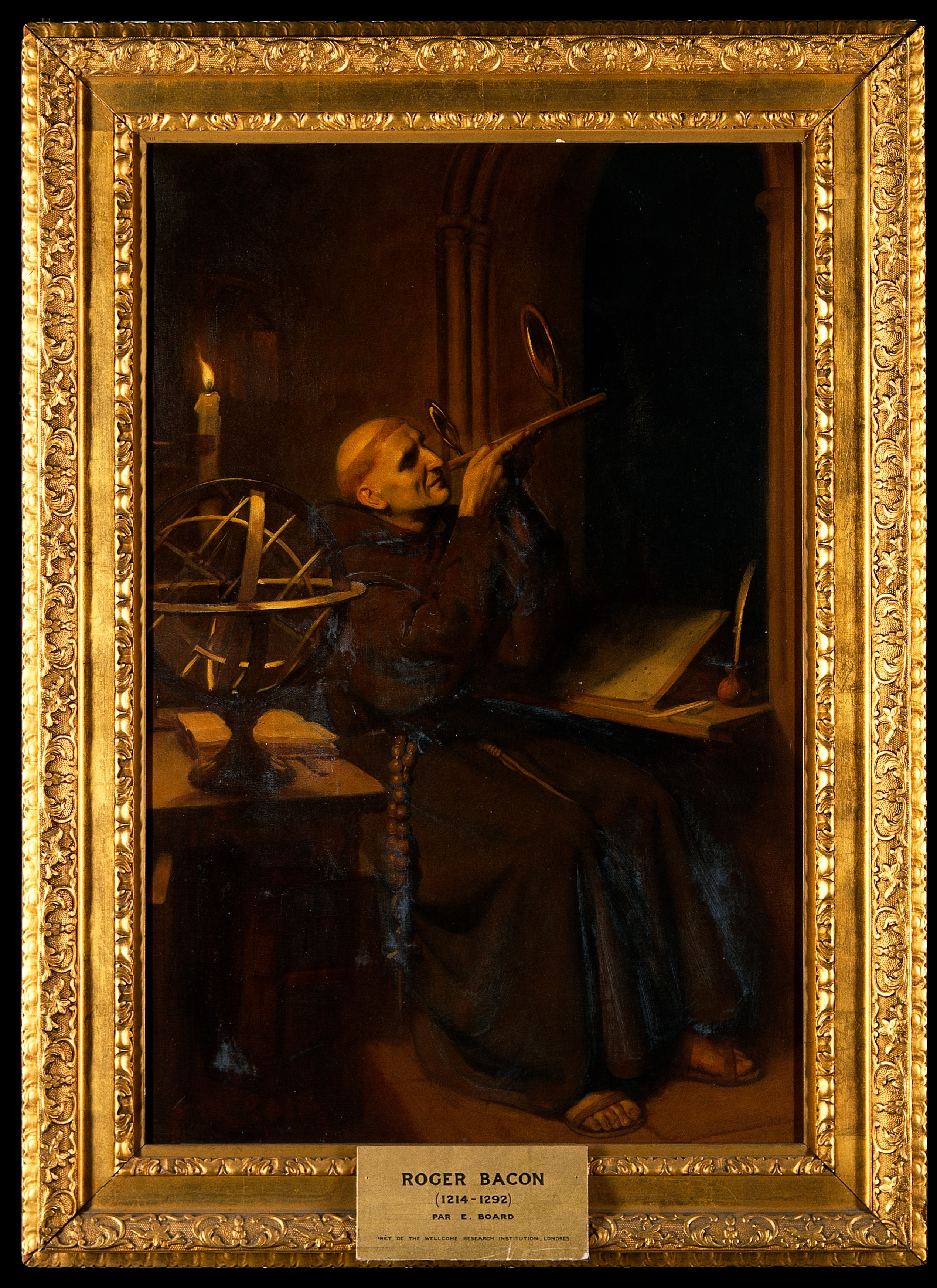 Roger Bacon in his observatory at Merton College, Oxford. Oil painting by Ernest Board. Iconographic Collections Keywords: Ernest Board